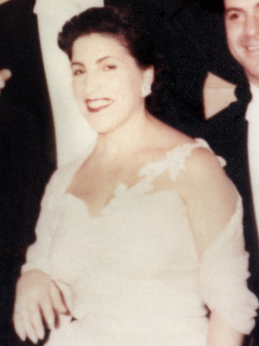 Licia Albanese at the Metropolitan Opera.